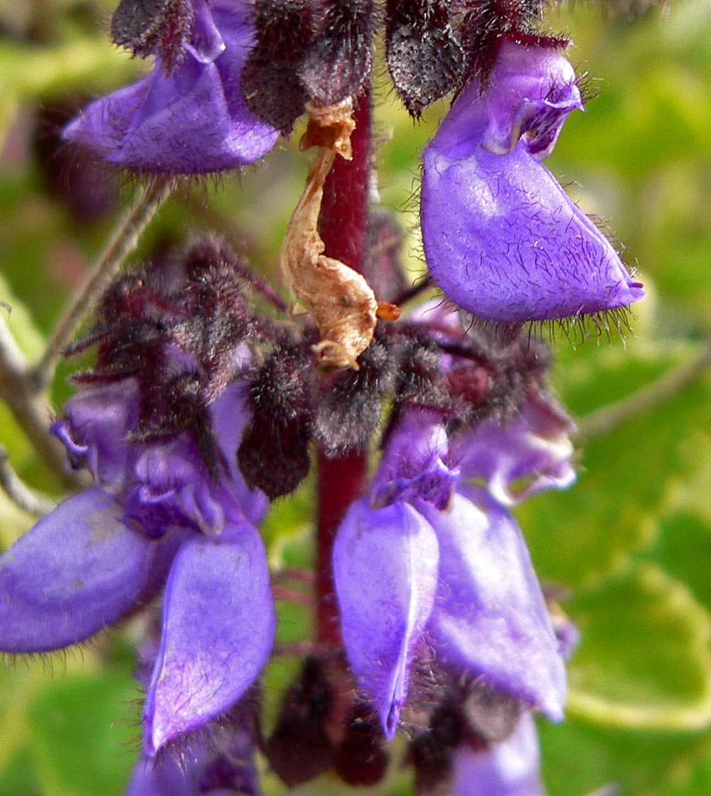 Photo of Coleus lanuginosus at the University of California Botanical Garden